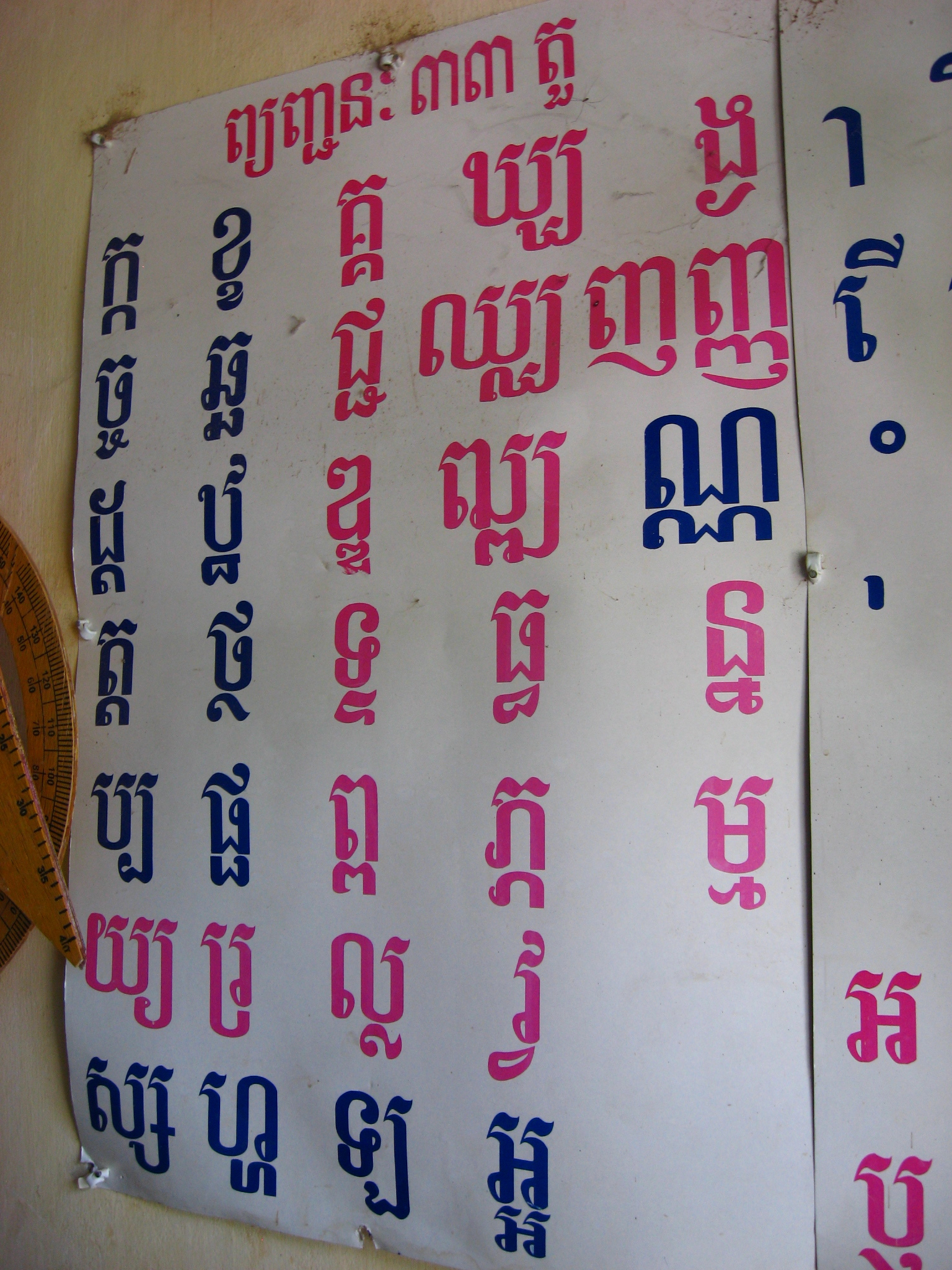 A poster bearing Khmer script in a schoolhouse in Battambang, Cambodia.